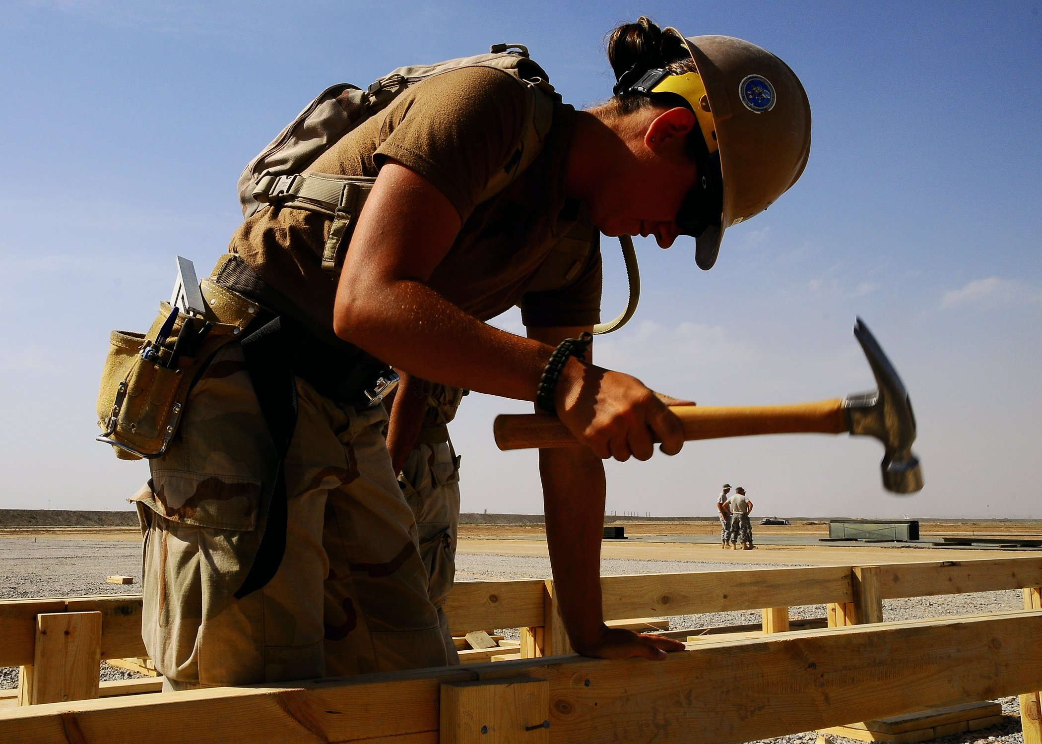 KANDAHAR, Afghanistan (April 30, 2009) Builder 3rd Class Amy Higgins, assigned to Naval Mobile Construction Battalion (NMCB) 11 Air Detachment Afghanistan, builds a Southwest Asia hut at Kandahar Air Field, Afghanistan. NMCB 11 is embarked aboard the amphibious transport dock ship USS Nashville (LPD 13) supporting Africa Partnership Station, a multinational initiative developed by Commander, U.S. Naval Forces Europe and Commander, U.S. Naval Forces Africa to work with U.S. and international partners to enhance maritime safety and security in West and Central Africa. (U.S. Navy photo by Mass Communication Specialist 3rd Class Jeffrey R. Militzer/Released)